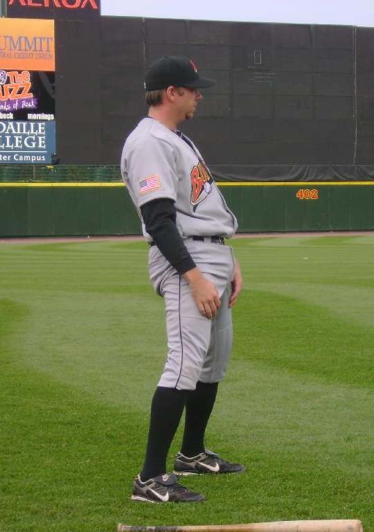 Michael Aubrey 5/12/08 @ Frontier Field 06:09, 13 May 2008 . . Phil5329 . . 1,024×768 (107 KB)